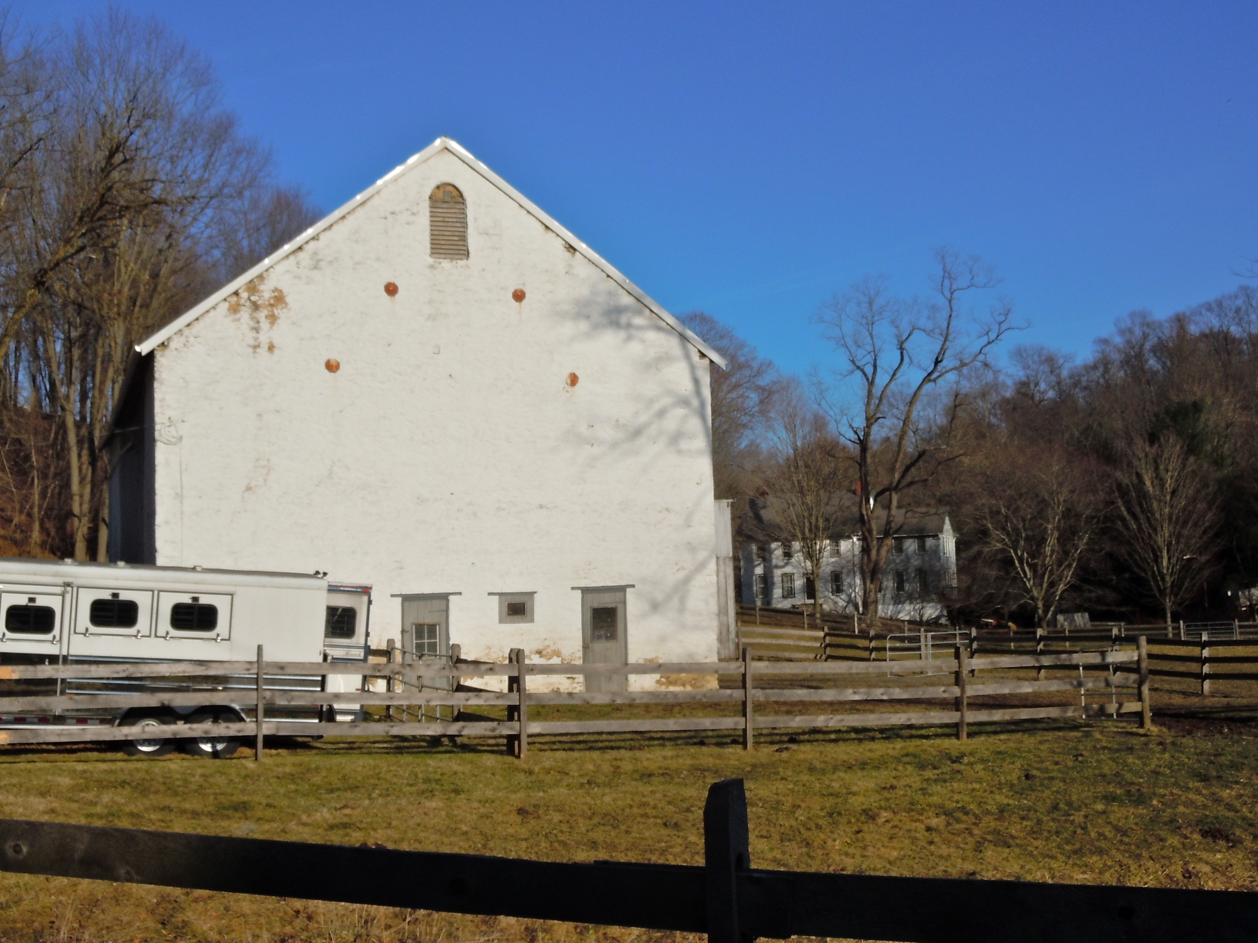 Barn in Glen Rose Historic District on the NRHP since September 18, 1985. On Legislative Route 15178 and Township 371 (Park Ave. and Glen Rose Road) in East Fallowfield Township, Chester County, Pennsylvania.